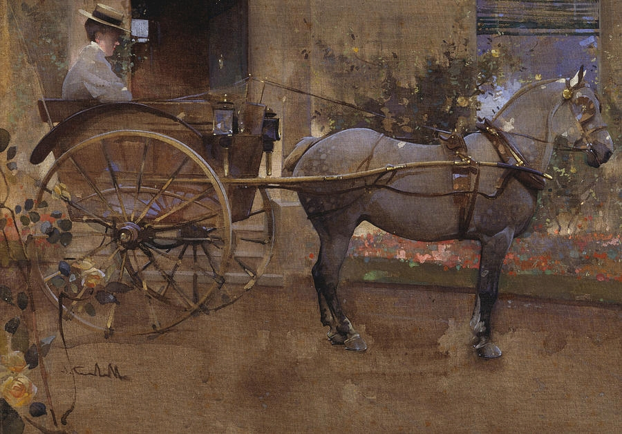 The Governess Cart